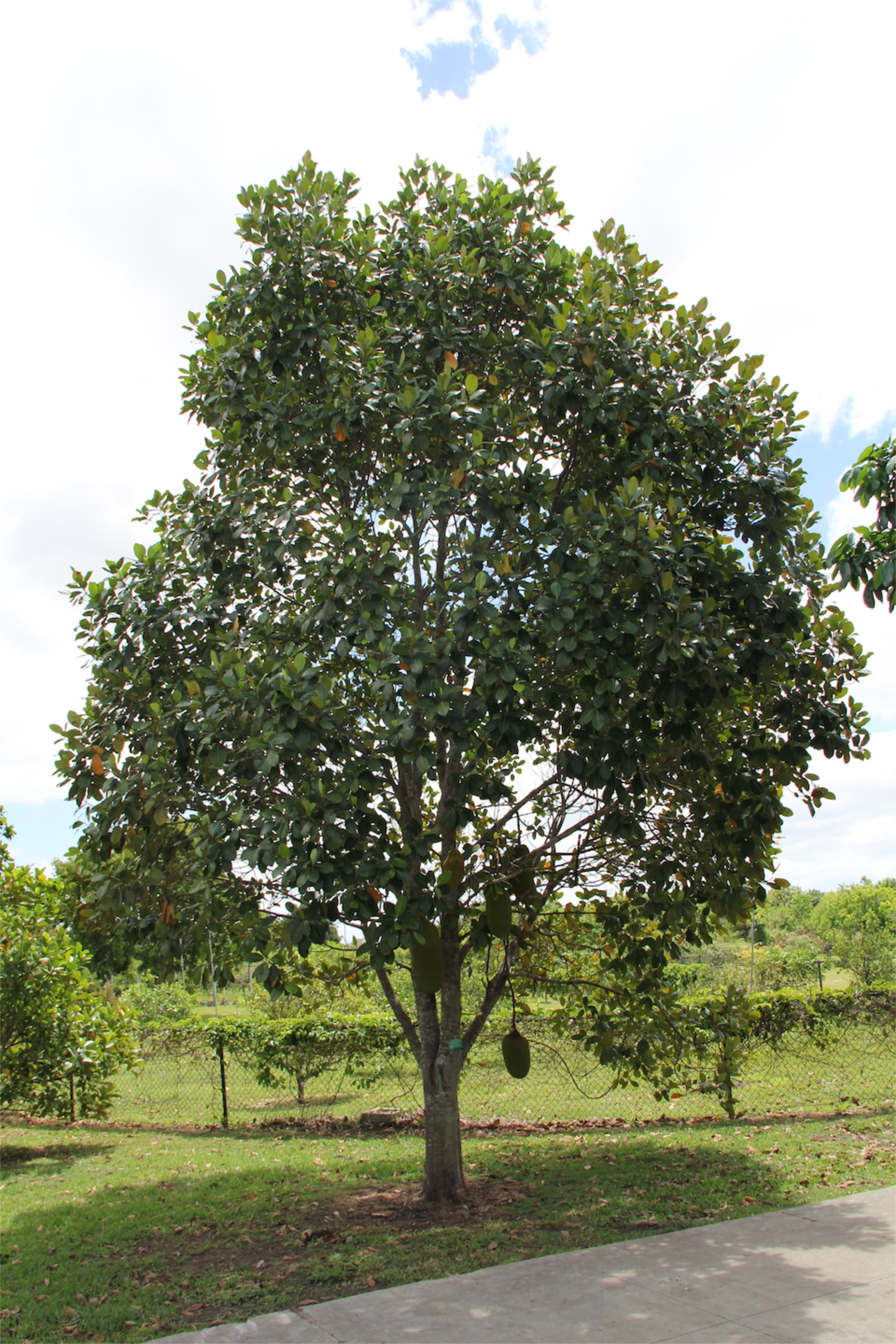 Artocarpus heterophyllus (Jackfruit)